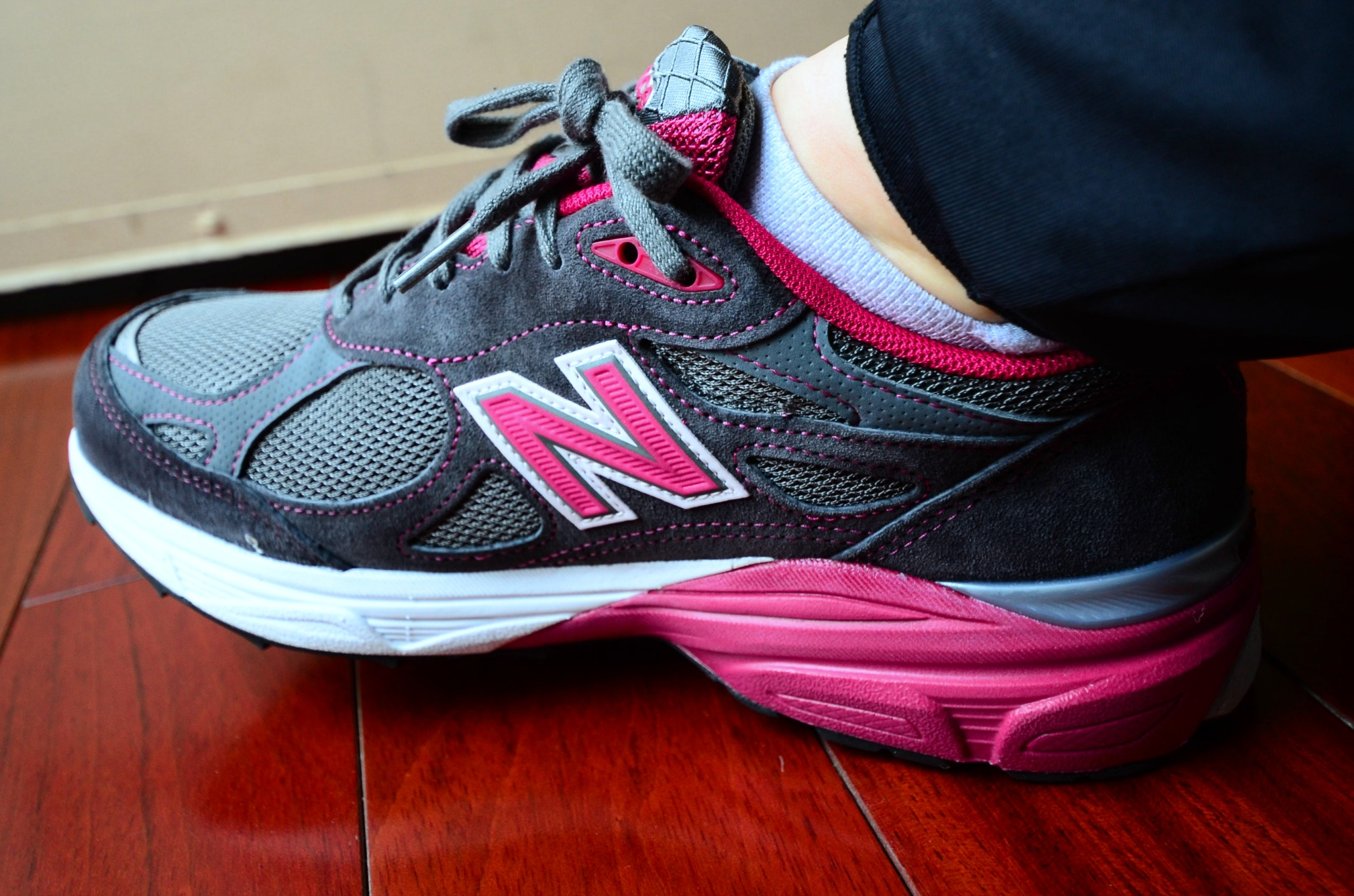 New Balance Women's 990 Running Shoes